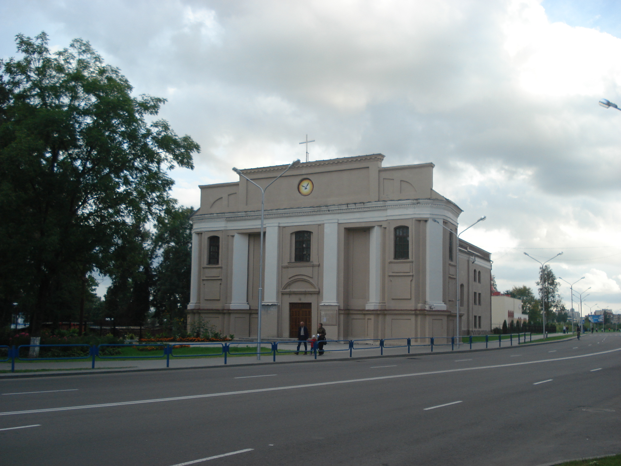 Catholic church of Saint Joseph in Vorša